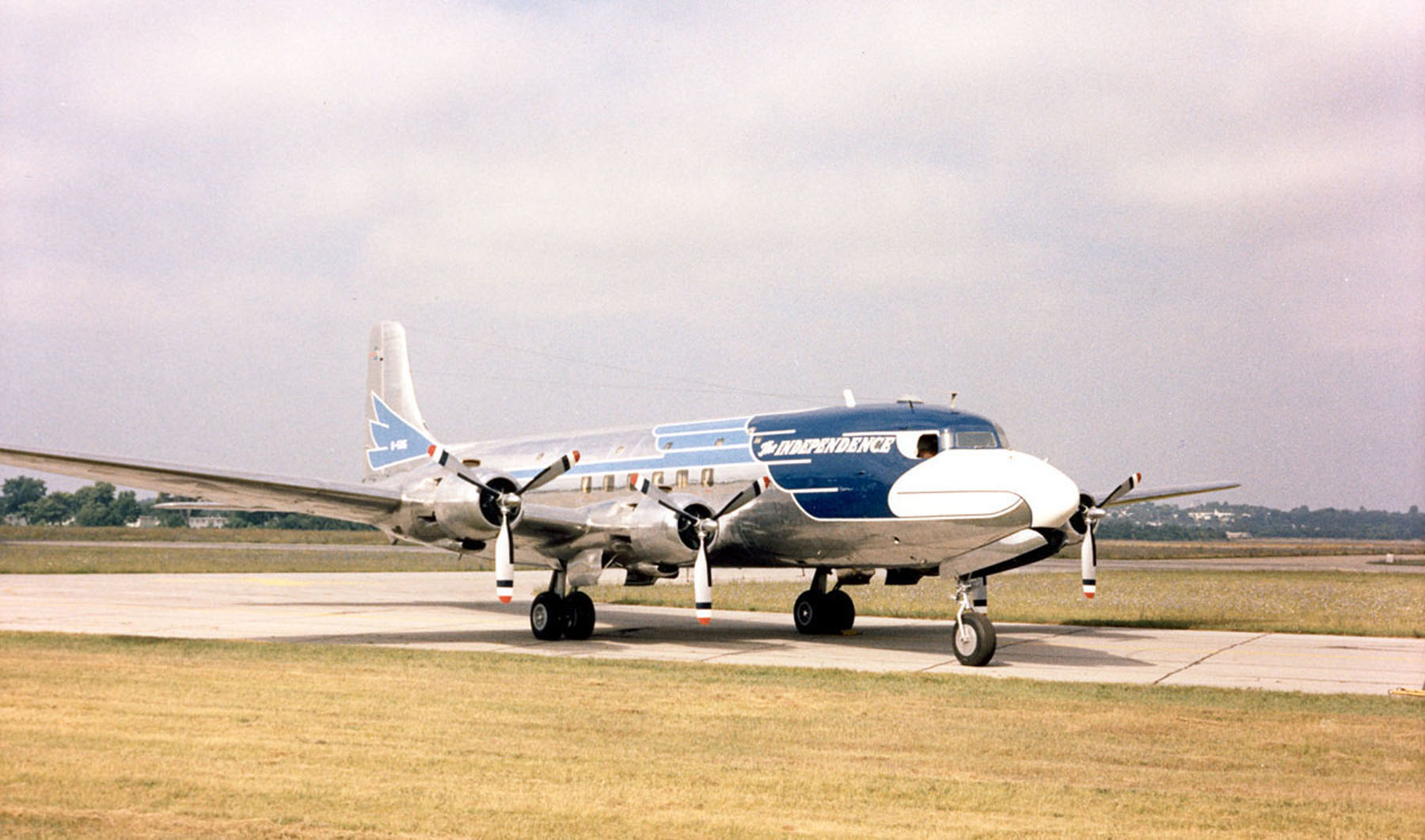 Photograph of President Harry S. Truman's airplane, a Douglas VC-118 (s/n 46-505) called "The Independence". In 1947 USAAF officials ordered the 29th production DC-6 to be modified as a replacement for the aging Douglas VC-54C Skymaster "Sacred Cow" presidential aircraft. It differed from the standard DC-6 configuration in that the aft fuselage was converted into a stateroom. Also, the main cabin seated 24 passengers or could be made up into 12 "sleeper" berths. The VC-118 was formally commissioned by the USAAF on 4 July 1947, and was nicknamed "Independence" for Truman’s hometown in Missouri (USA). The aircraft is today in display at the National Museum of the USAF.